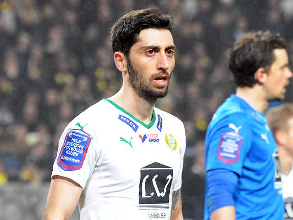 Nahir Besara, Hammarby IF